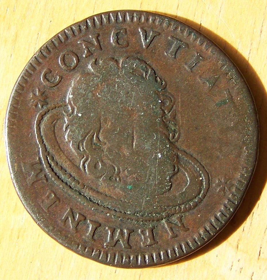 20 grani, Order of Malta, 1742. Obverse depicts the head of John the Baptist on a platter